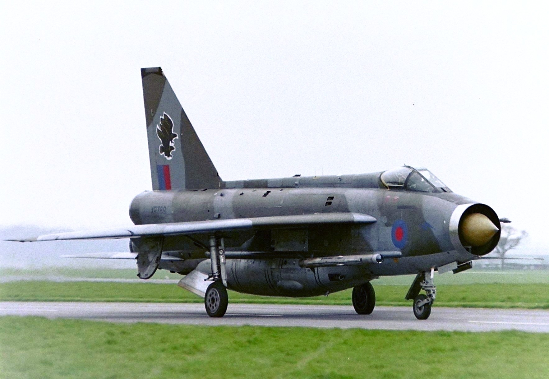 Lightning XR769 taxiing towards runway 20 at RAF Binbrook on April 11th for its last take off. The aircraft was piloted by an Australian exchange-pilot when an engine fire occured. While the pilot intended to take the aircraft back to the base, he was told that he'd better get out.